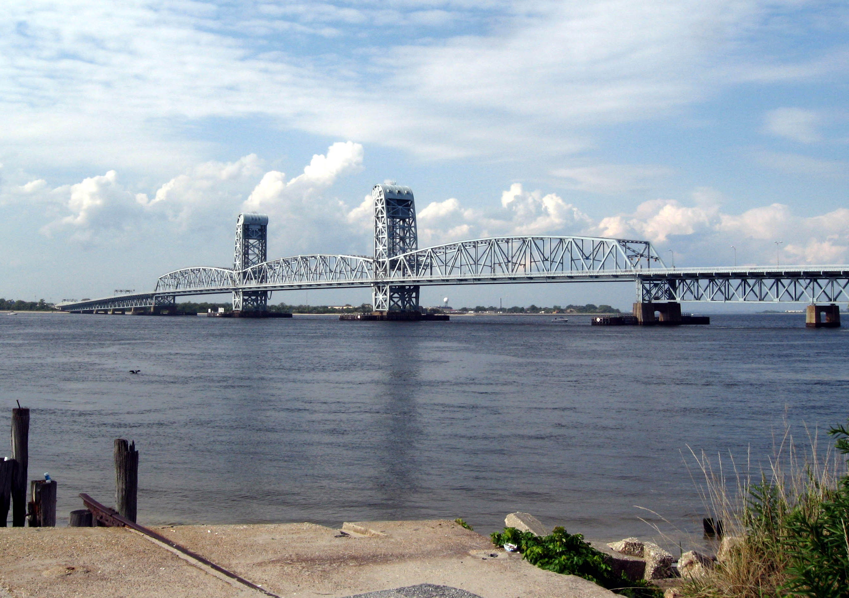 Looking north at Marine Parkway-Gil Hodges Memorial Bridge from Riis Landing east of Roxbury, Queens